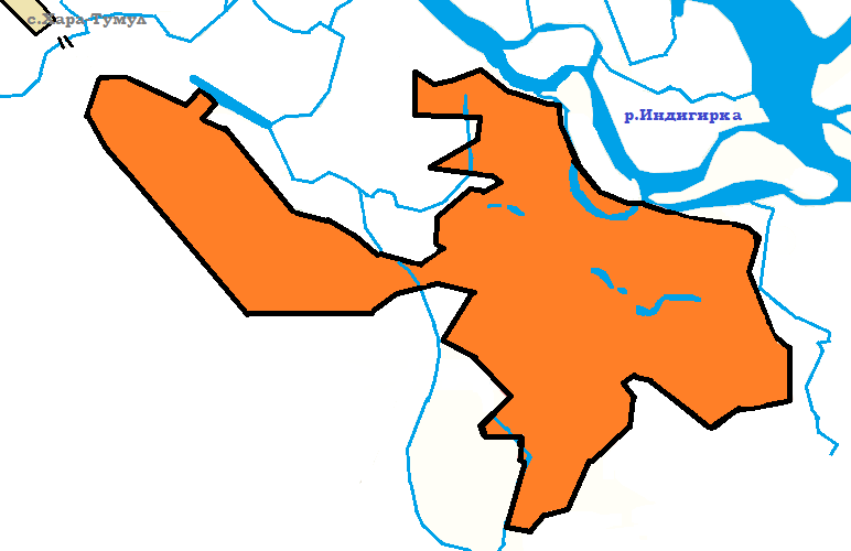 Map Of Oymyakon (Russia)